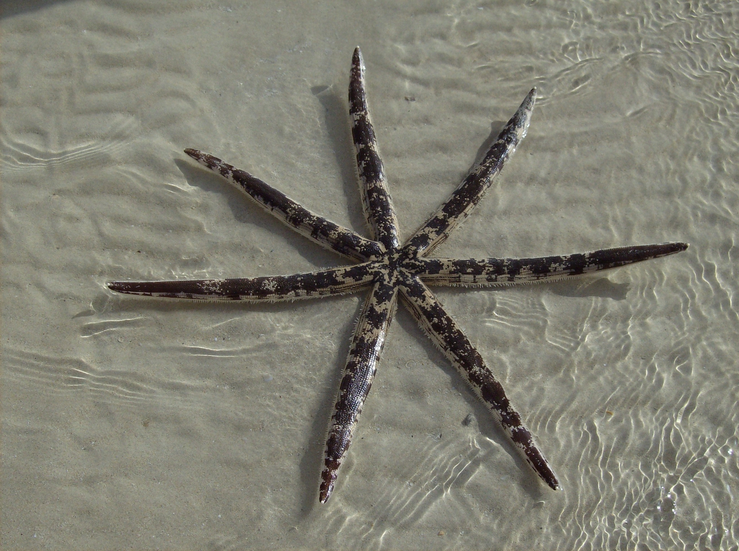 Luidia maculata (Seven armed starfish) taken in Ras Sedr,Egypt in 2012.